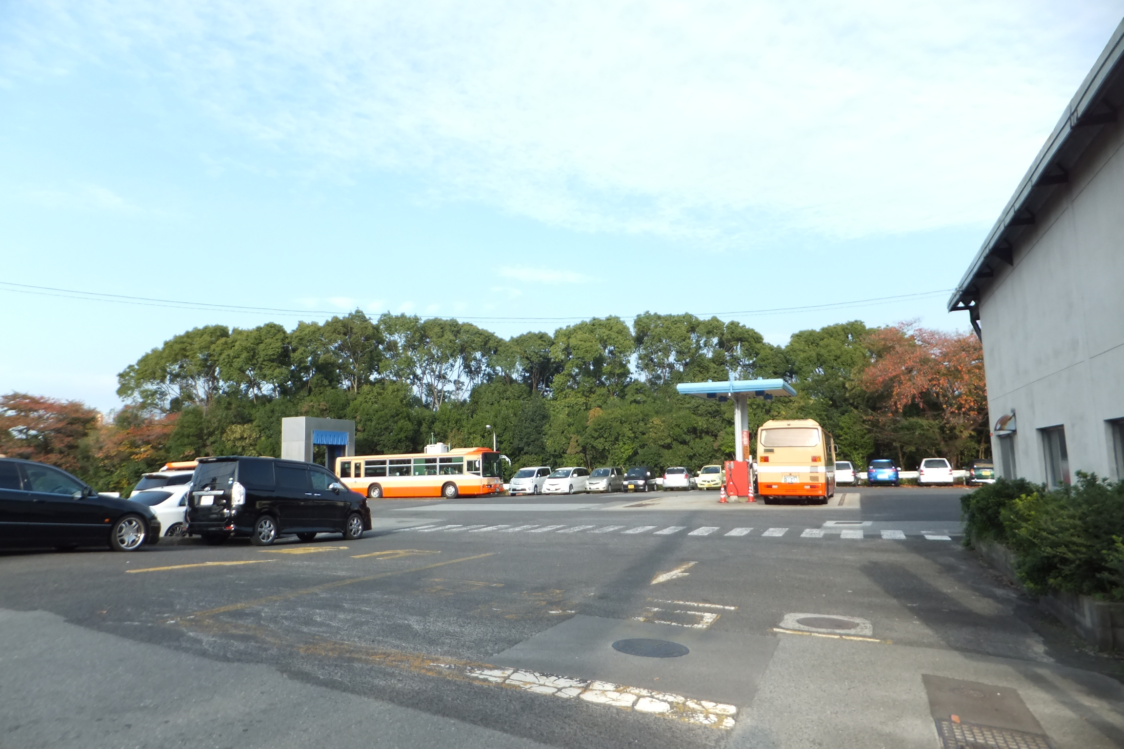 Shinki Bus Okubo Depot